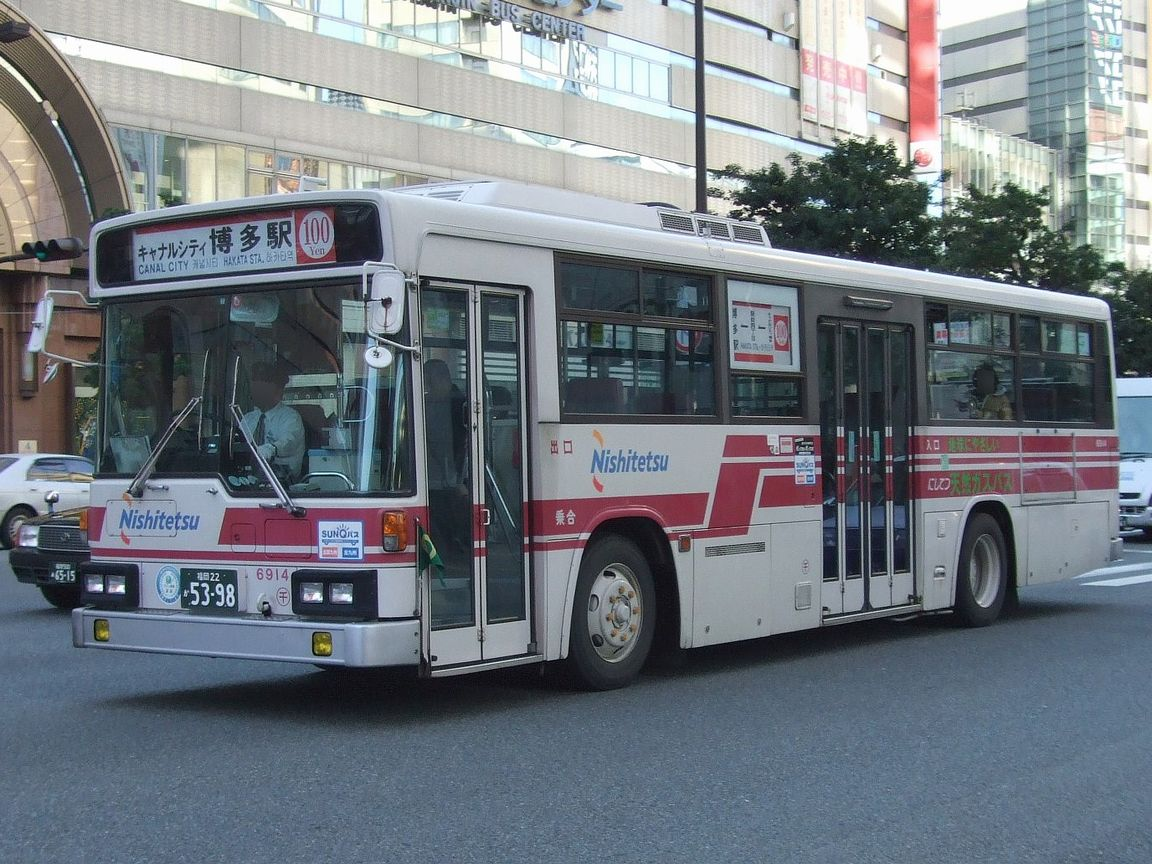 Nishitetsu Bus(CNG Bus). See below.